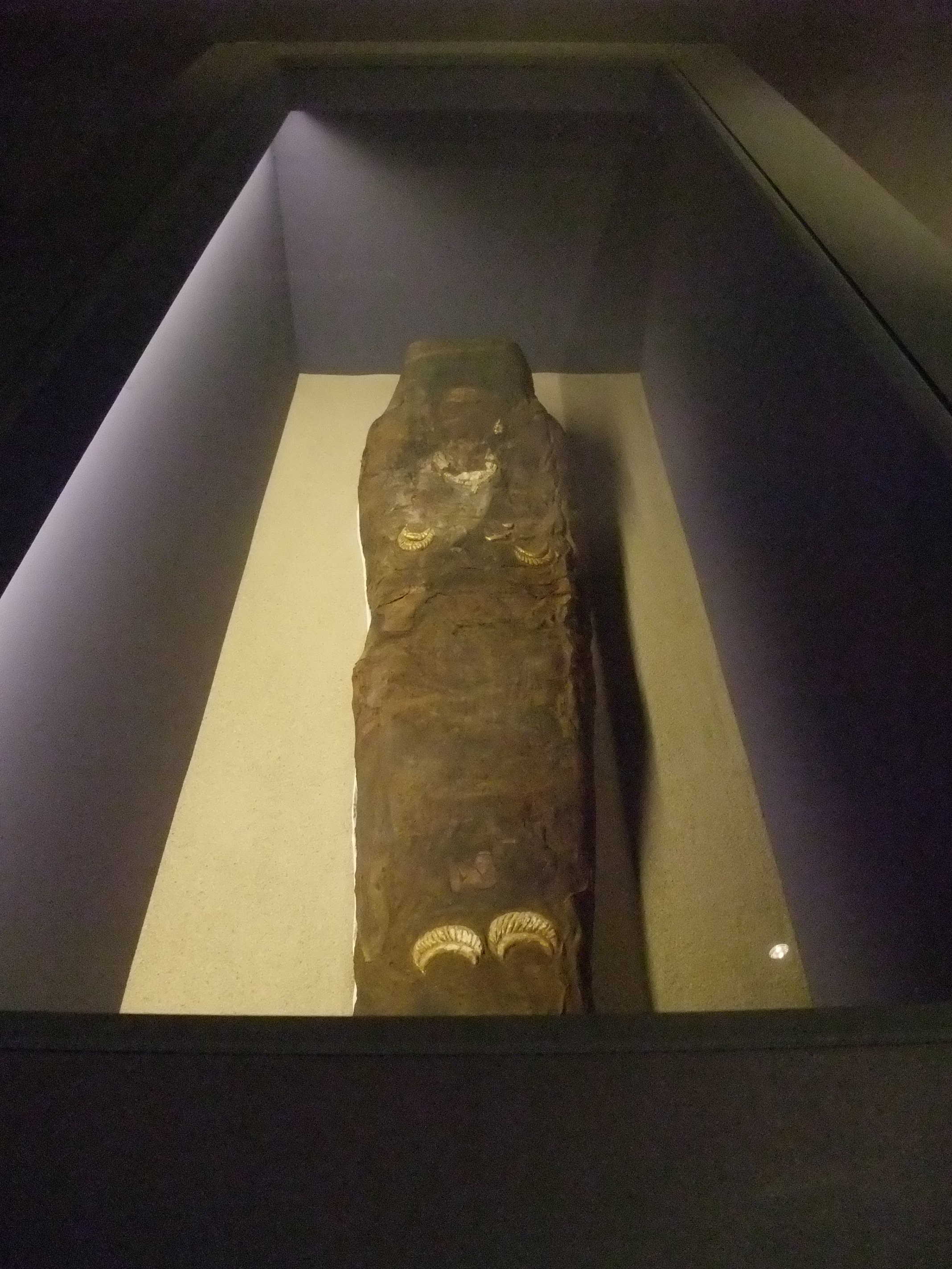 Ancient Egyptian mummy with painted shroud, commonly called the "dame d'Antinoë" (lady of Antinoe), in the Musée des beaux-arts in Rennes, in France. She was discovered in the town of Antinoopolis (also called Antinoe) in 1909 and was restored in 2008.